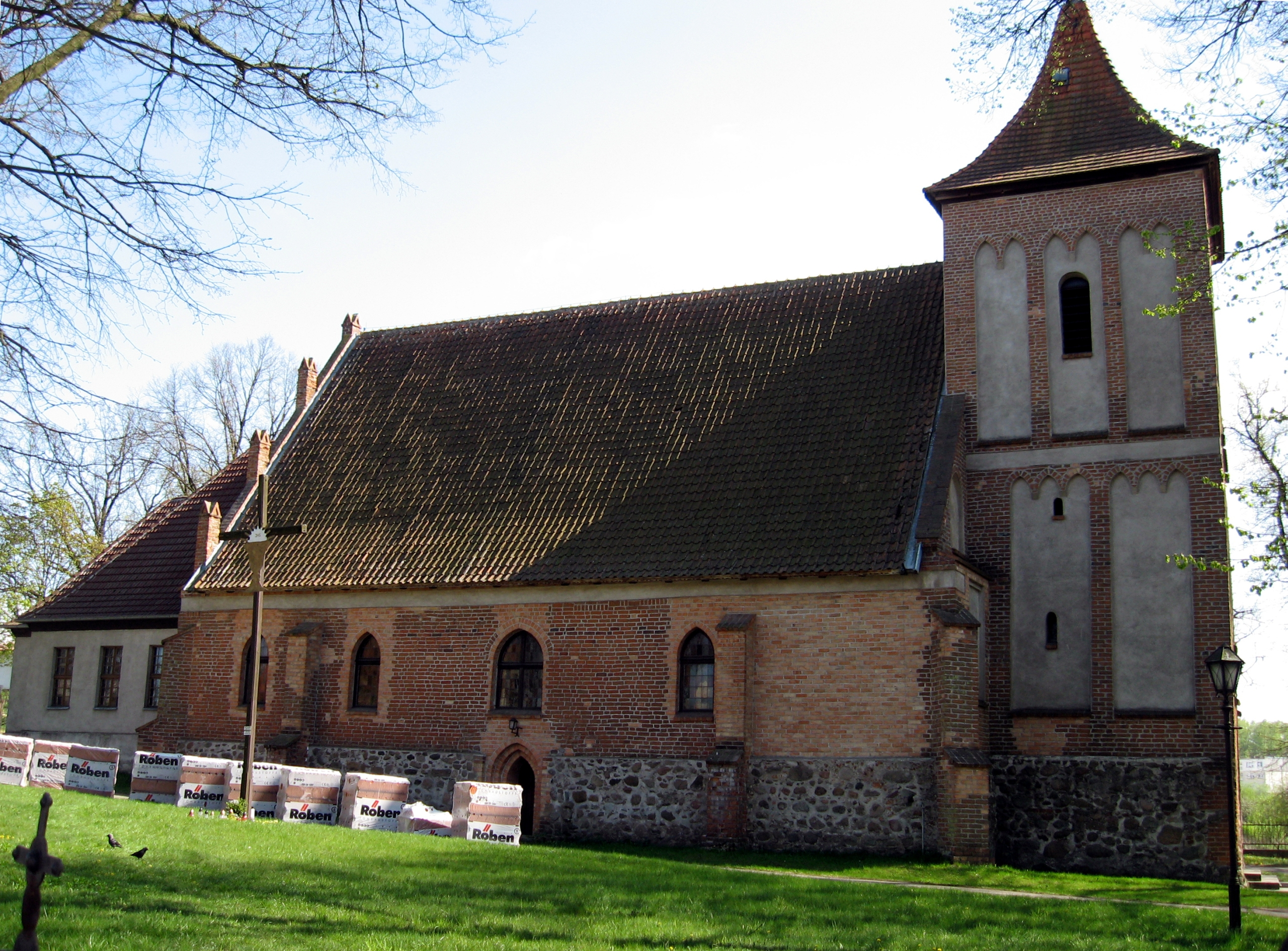 Church in Narzym